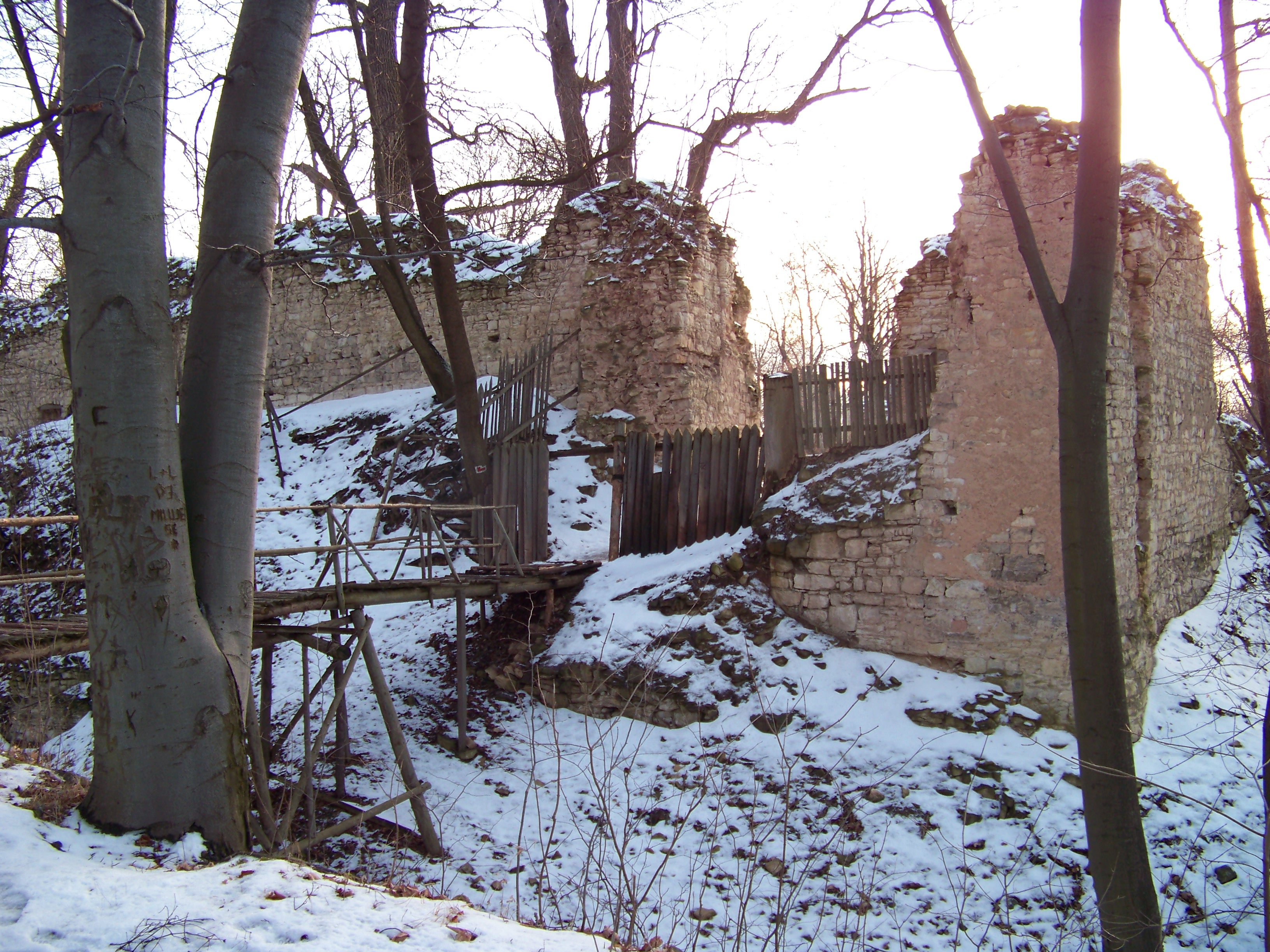 Ruin of Pravda Castle. Pnětluky, Louny District, the Czech Republic.